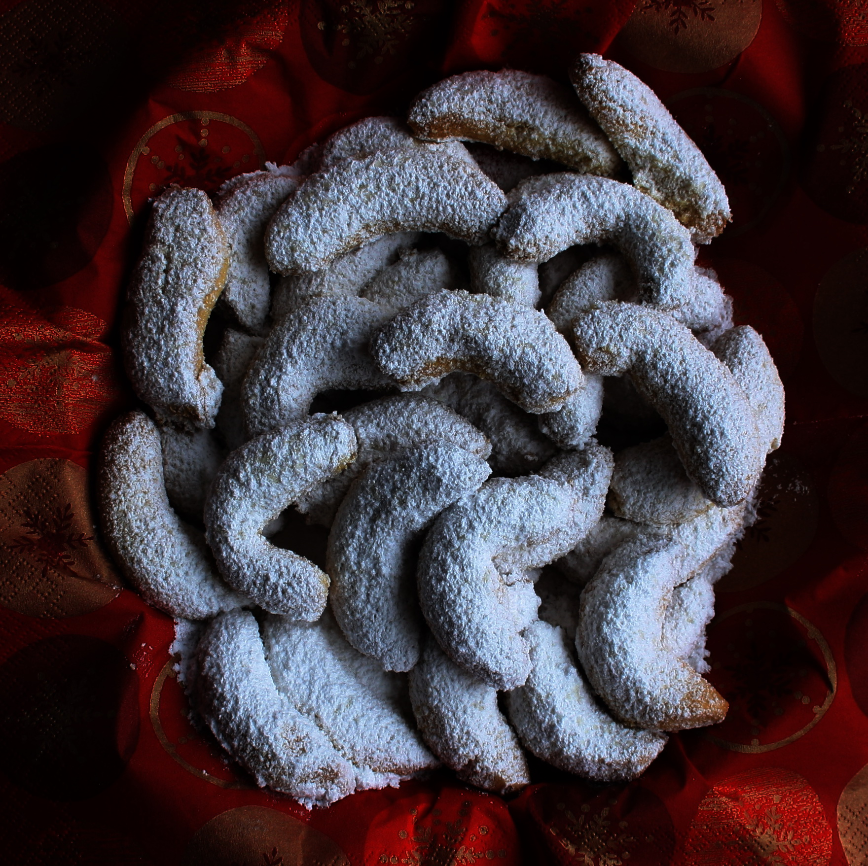 Vanillekipferl - a christmas pastry